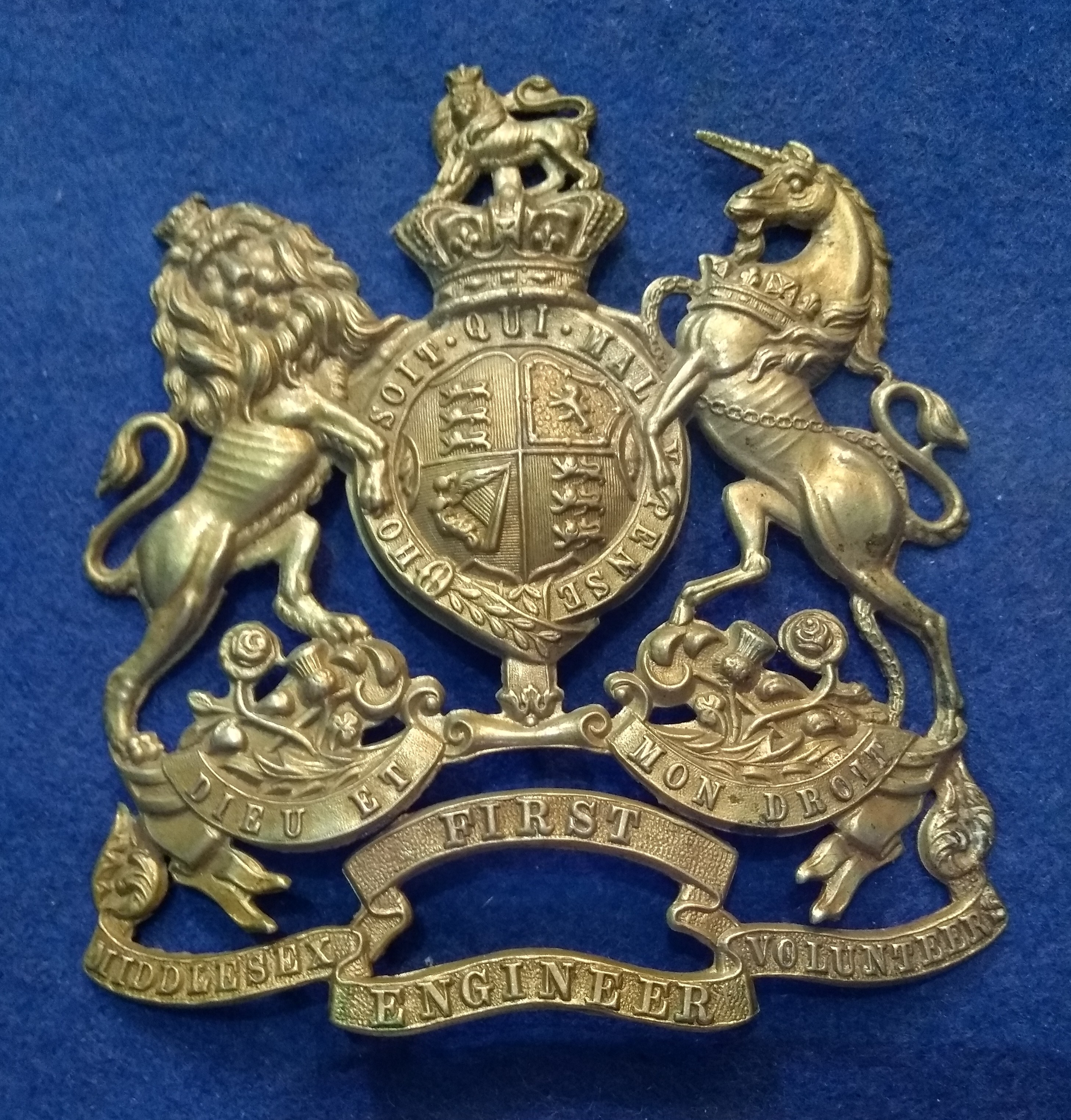 Helmet plate, Middlesex Royal Engineer Volunteers 1881-1901